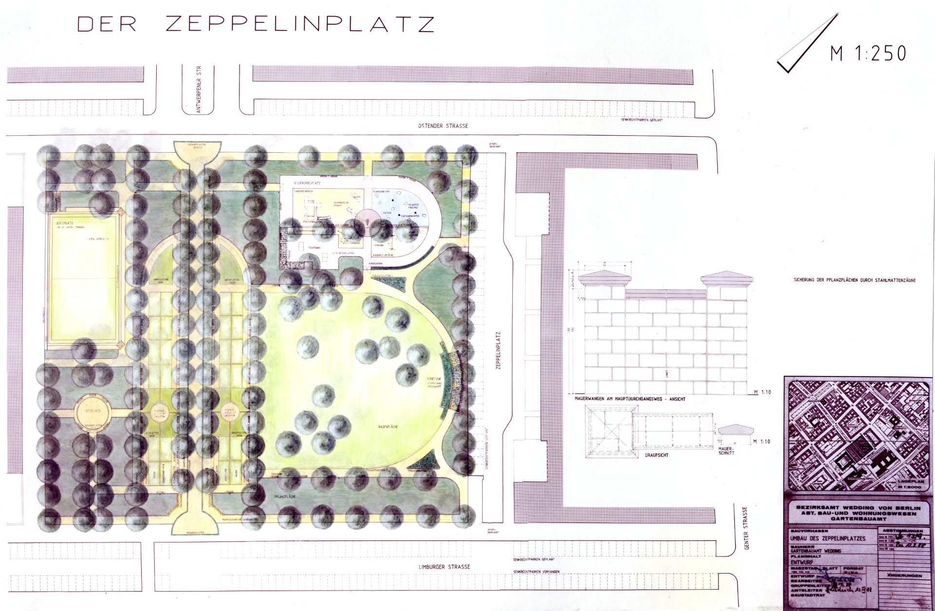 Copy of the design for the Zeppelinplatz in Berlin of Michael Hennemann from September 1988. Coloured by hand on paper.